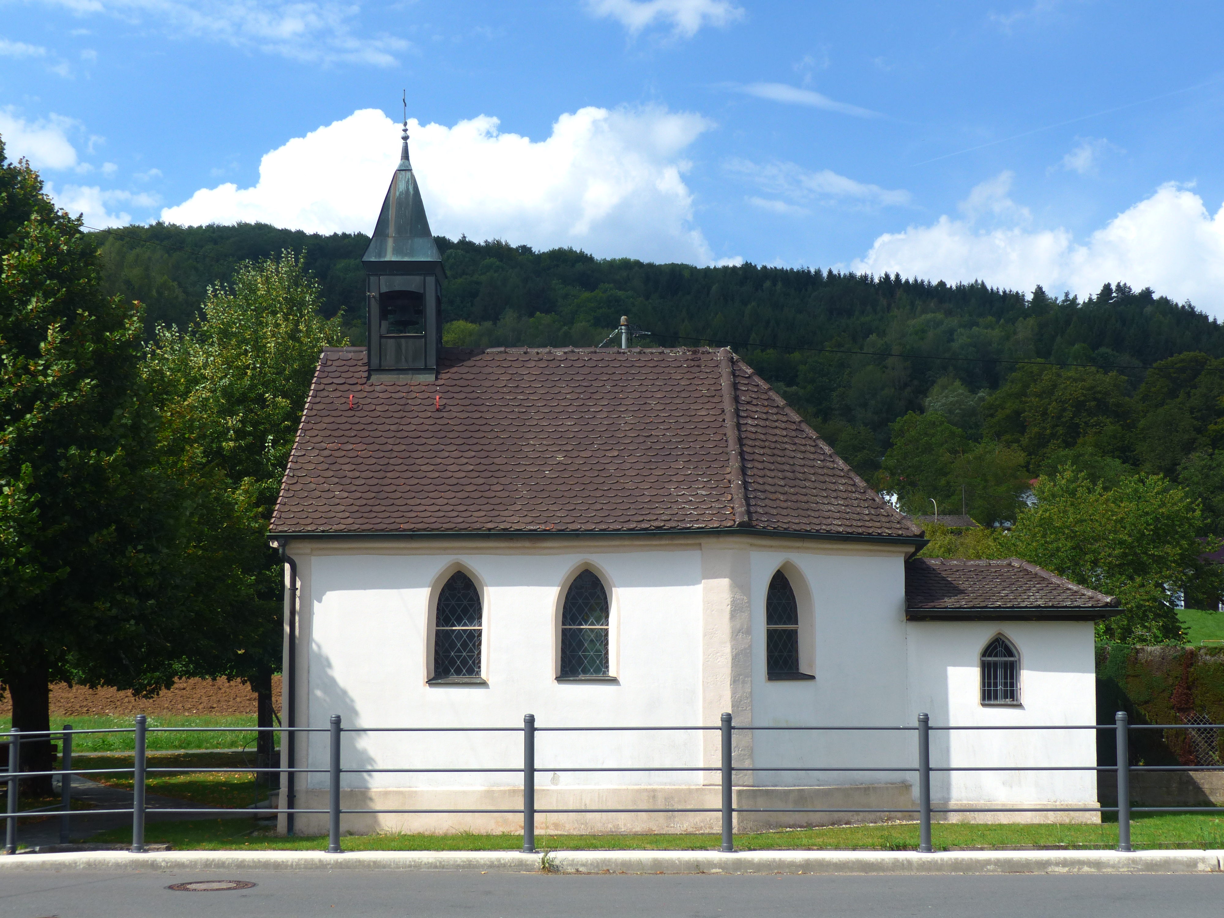 The chapel of the village Götzendorf, a district of the municipality of Eggolsheim.